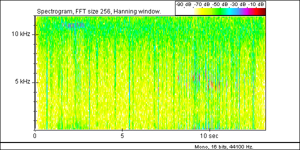 spectrogram of whole frequency division recording